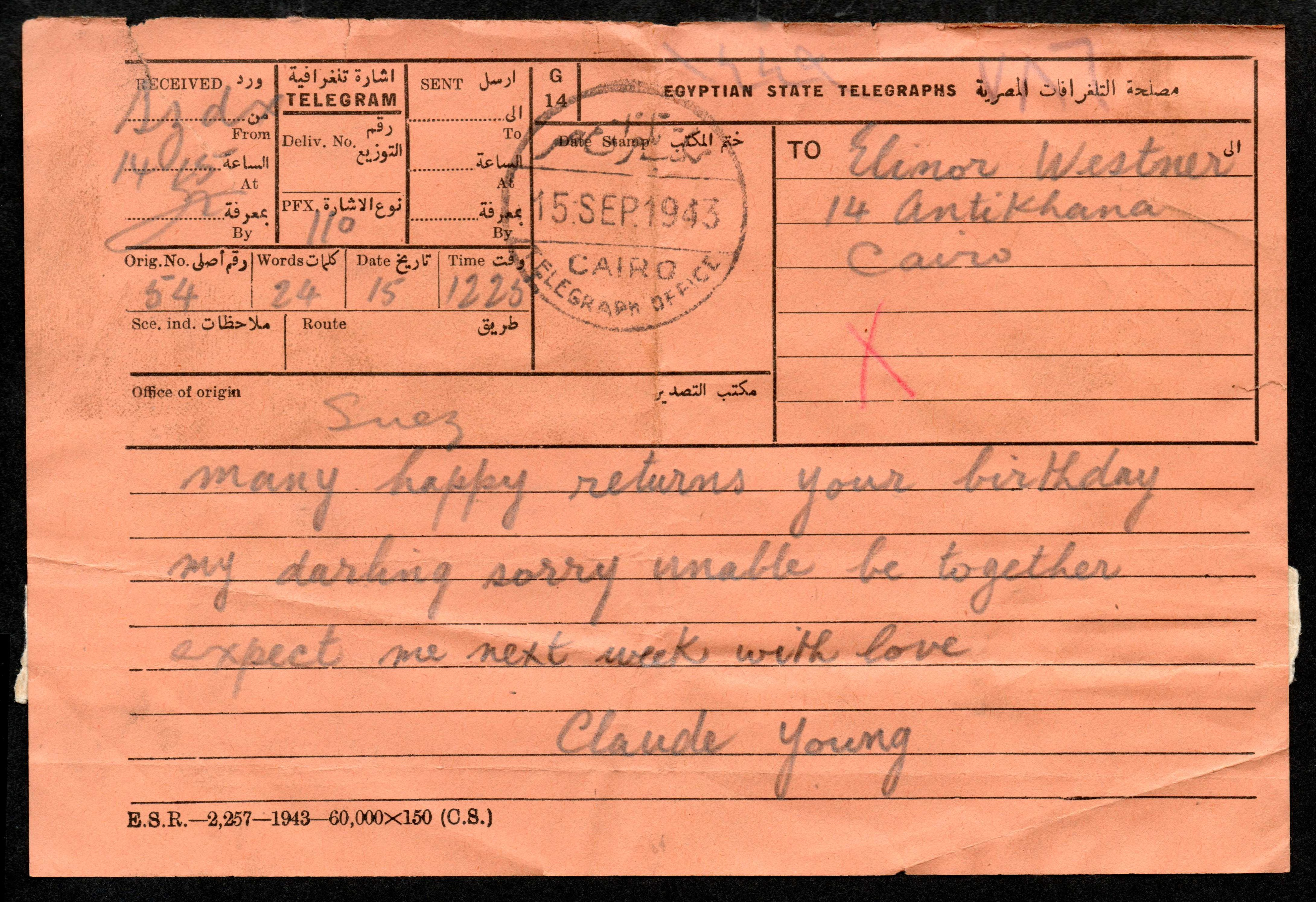 1943 Egyptian State Telegraphs form with Cairo date mark.